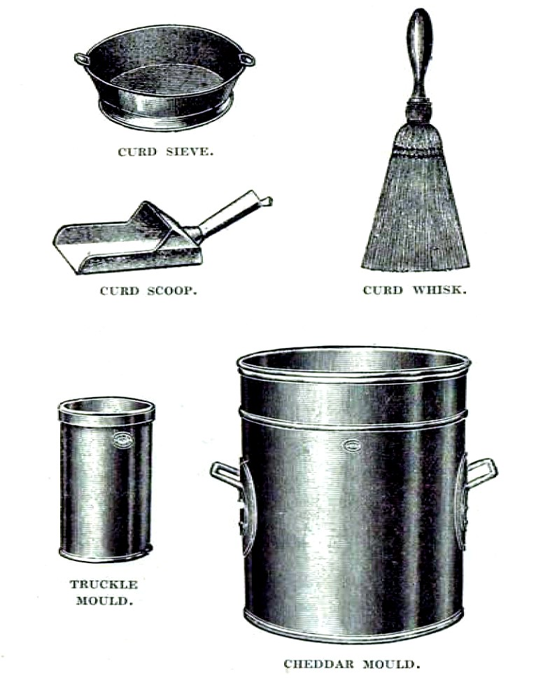 Cheese making equipment from Dora Saker's Practical Cheddar Cheese-making, 1917, p. 23.